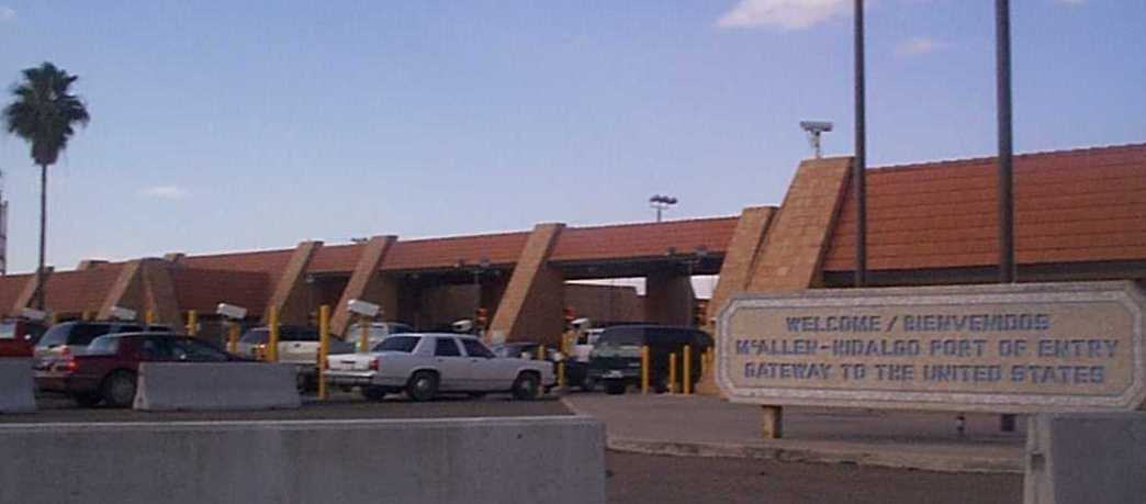 Hidalgo port of entry west primary lanes as seen in 2000.